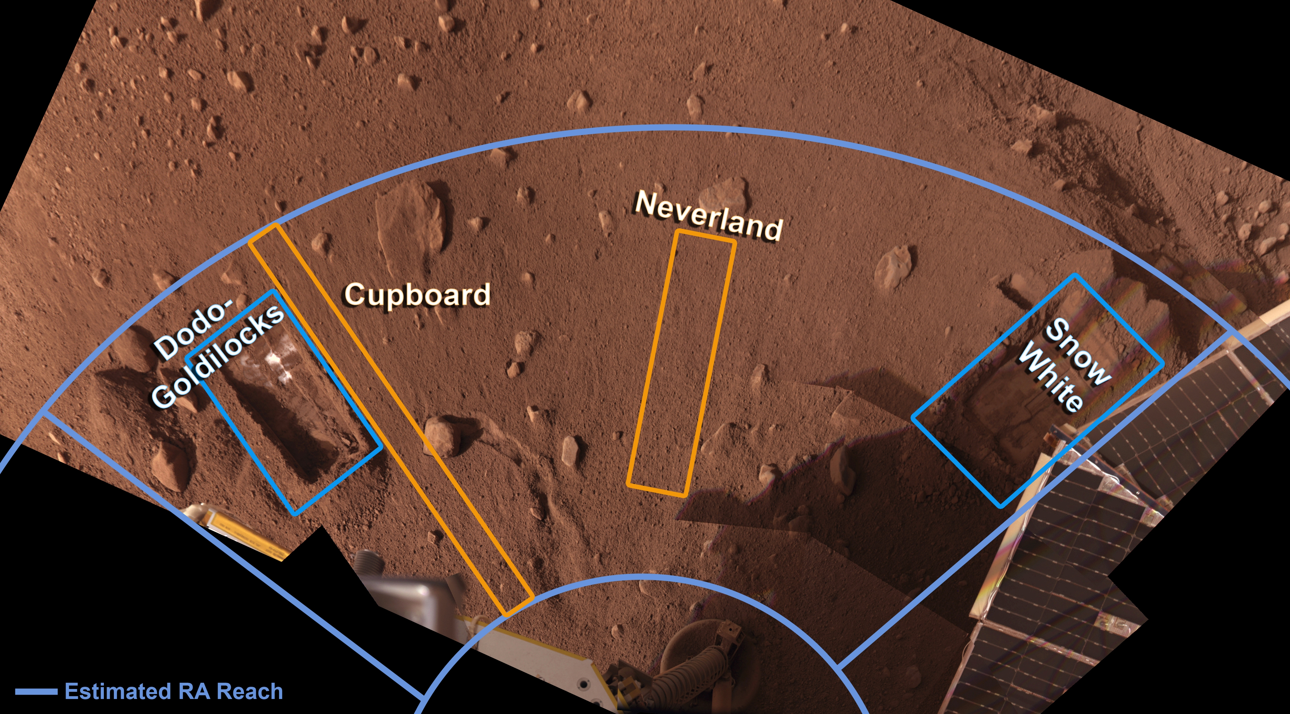 This image taken by NASA's PHoenix Mars Lander's Surface Stereo Imager shows the current trenches, labeled Dodo-Goldilocks and Snow White, and the areas identified for future digging, labeled Cupboard and Neverland. The Phoenix Mission is led by the University of Arizona, Tucson, on behalf of NASA. Project management of the mission is by NASA Jet Propulsion Laboratory, Pasadena, Calif. Spacecraft development is by Lockheed Martin Space Systems, Denver.